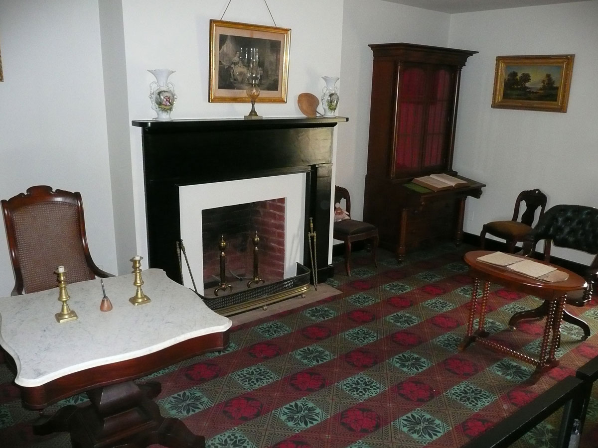 Photograph of the parlor of the (reconstructed) McLean House, Appomattox Court House, Virginia, site of the surrender of Gen. Robert E. Lee at the end of the American Civil War.